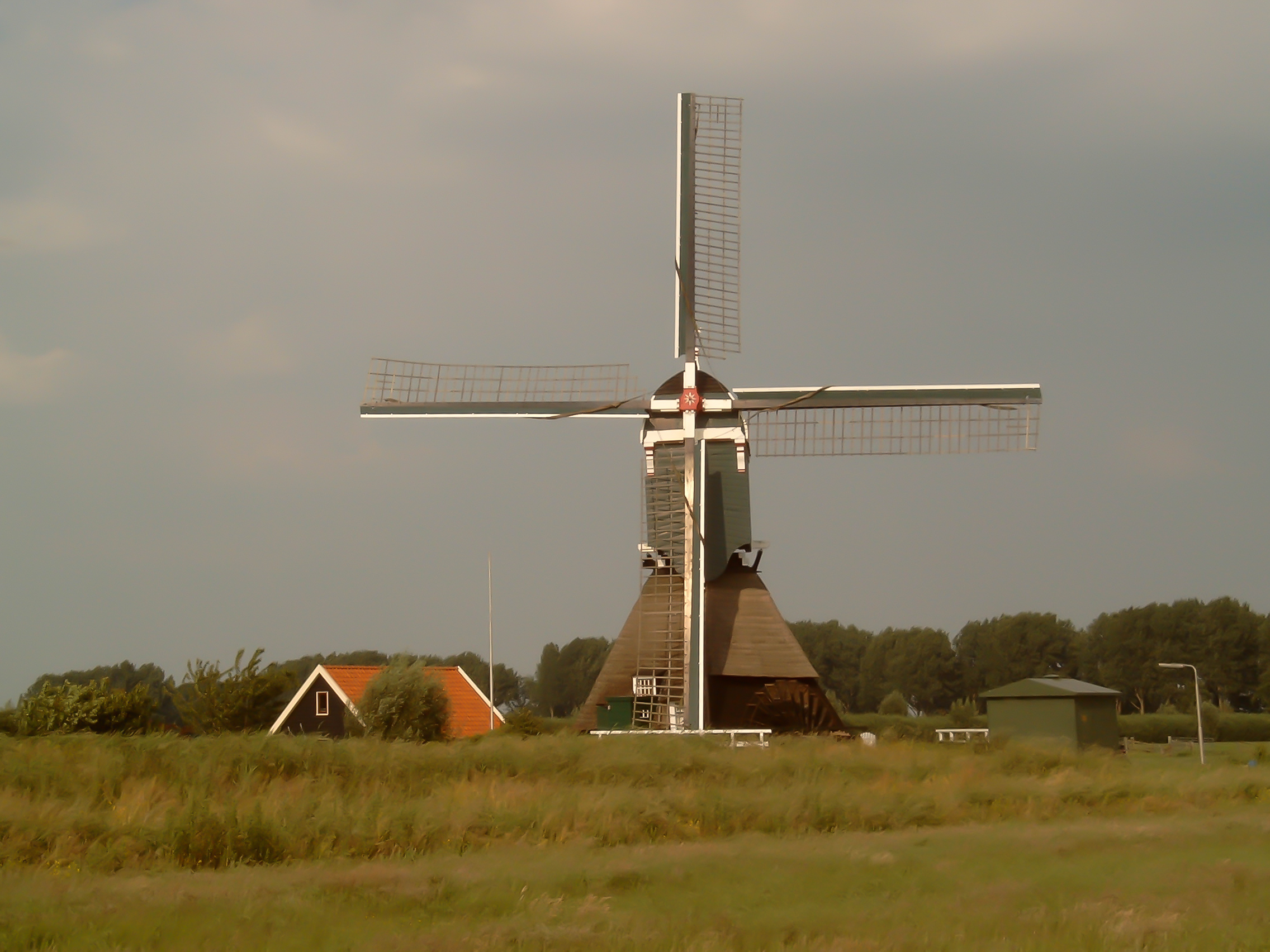 Noordeloos, mill (Boterslootse Molen)